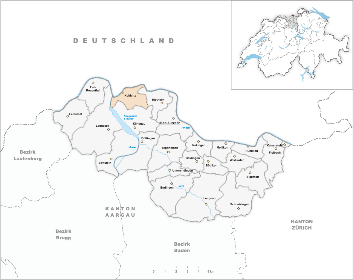 Municipality Koblenz